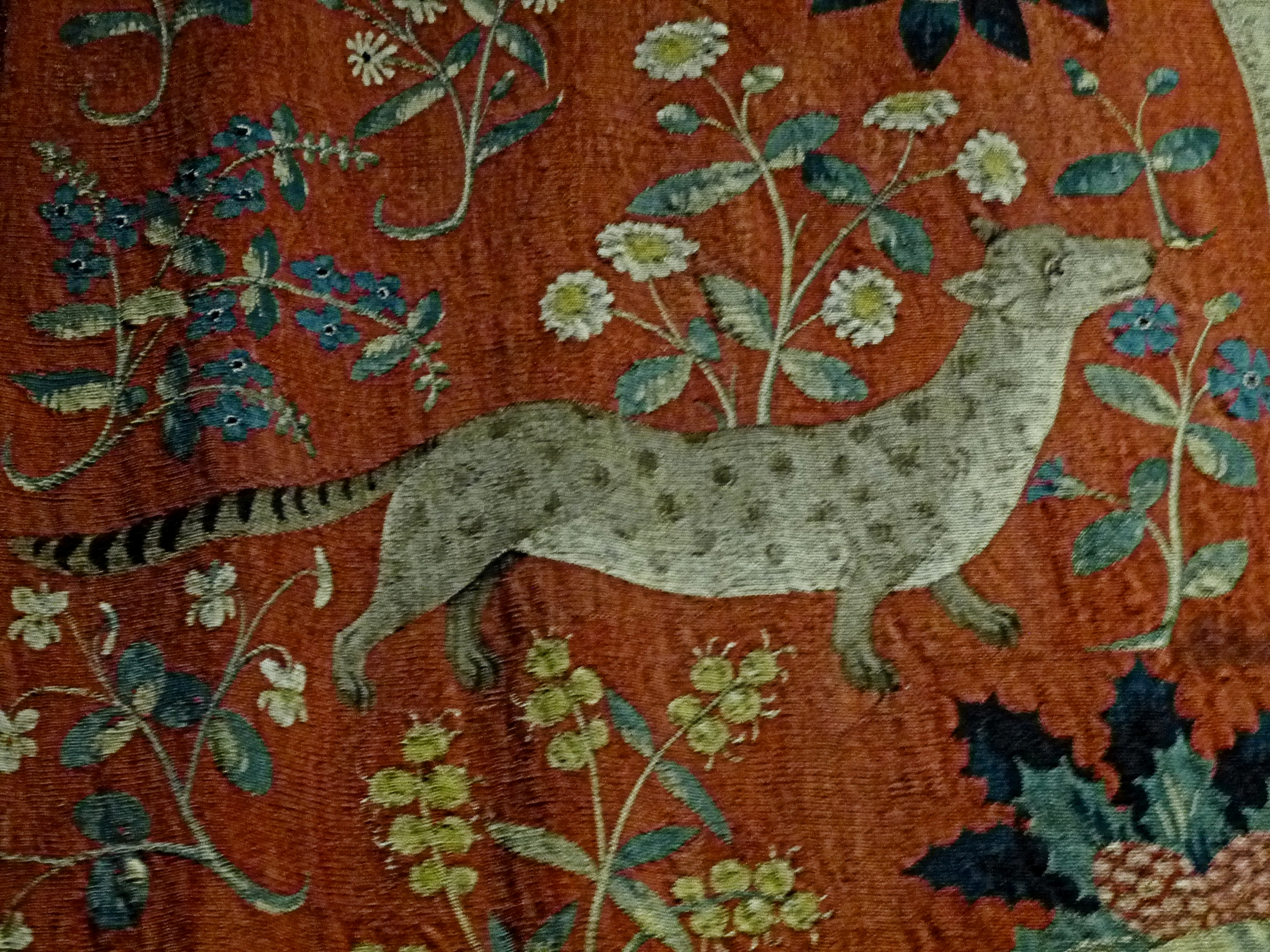 Common genet. Detail of taste tapestry Genette vers la droite